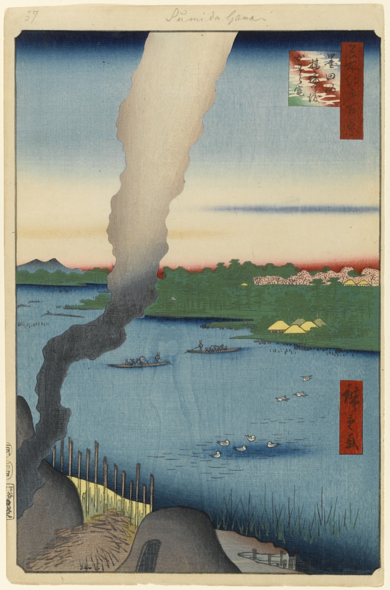 Part of the series One Hundred Famous Views of Edo, no. 037, part 1: Spring.